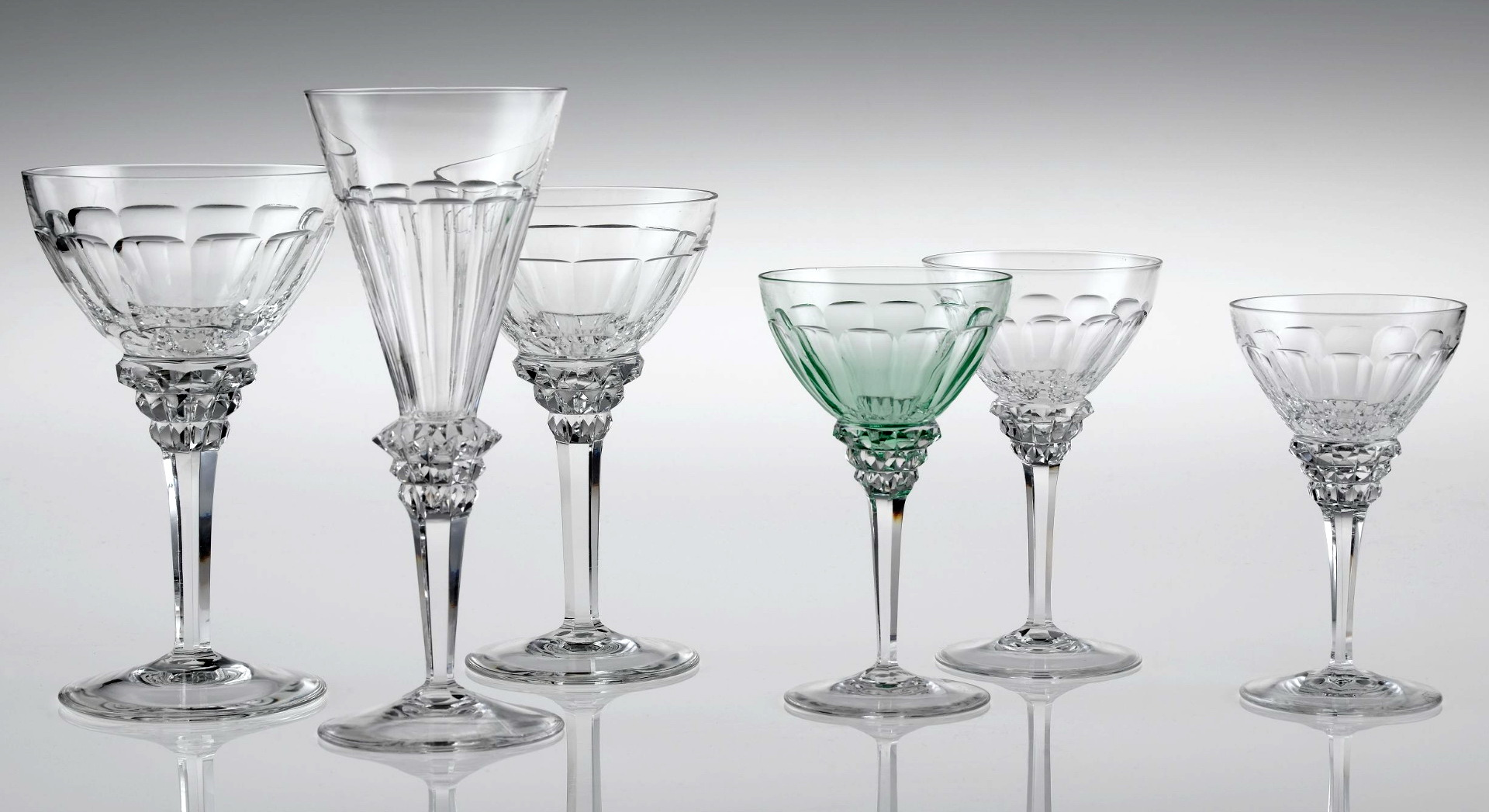 Set of glasses, designed by Jan Eisenloeffel and produced in 1927-28 by N.V. Kristalunie in Maastricht, Netherlands. Collection: Nationaal Glasmuseum, Leerdam, ref. nr. 0324-d.